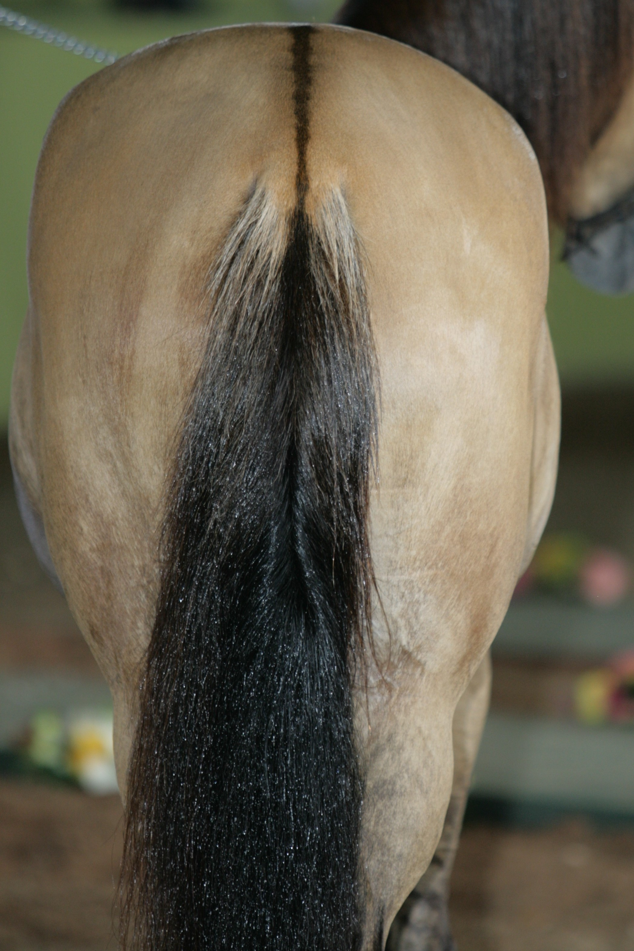 A dorsal stripe on a domestic horse, probably a dun horse. Picture taken in Puerto Rico